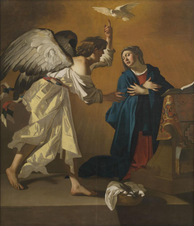 Jan Janssens - The Annunciation, Oil on canvas, 258,5 cm x 220,5 cm, Museum of Fine Arts Ghent